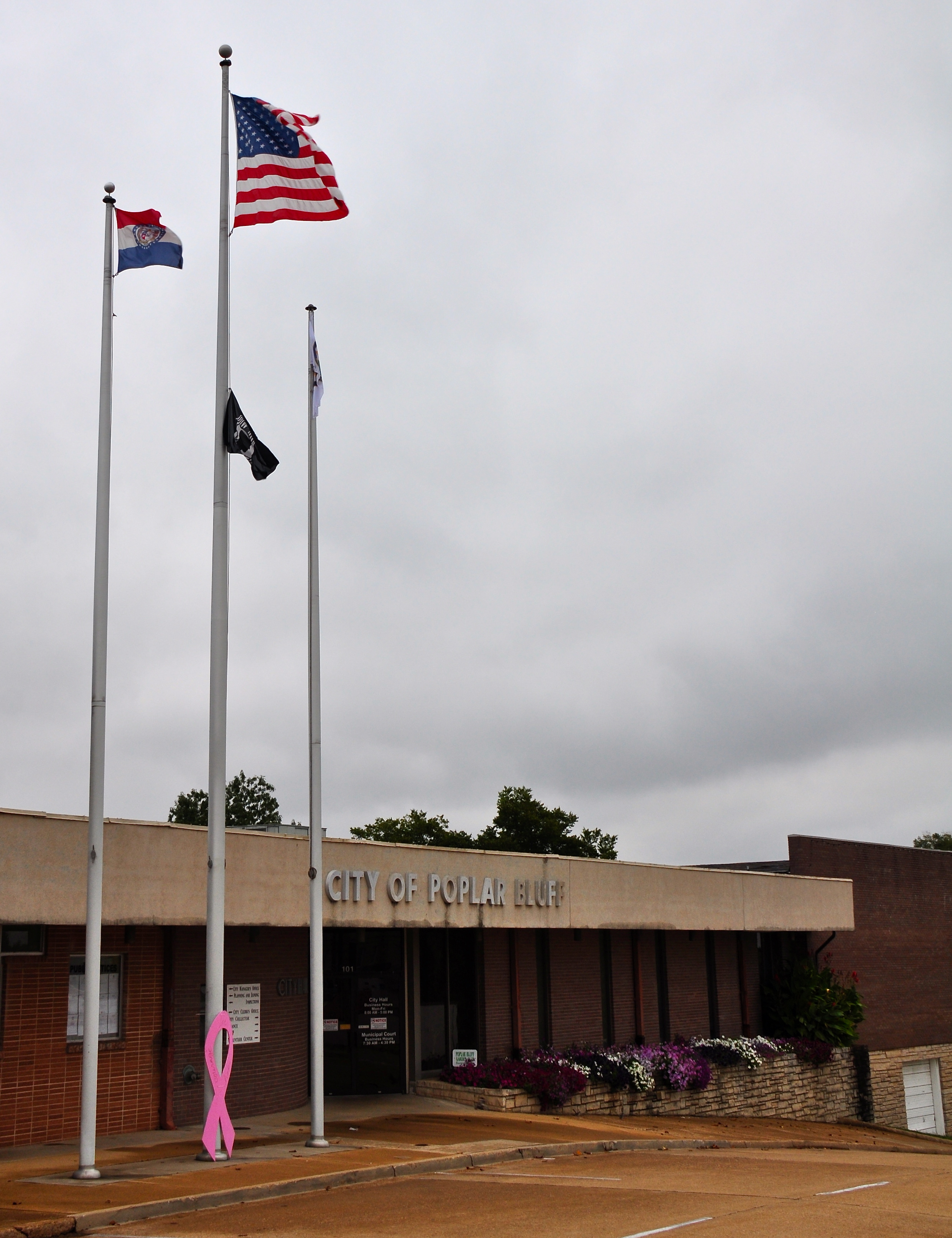 The city hall of Poplar Bluff, Missouri.